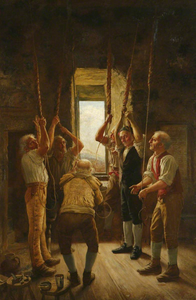 This painting was inspired by a poem called 'The Ringers of Launcells Tower' by Reverend R. S. Hawker of Morwenstow.